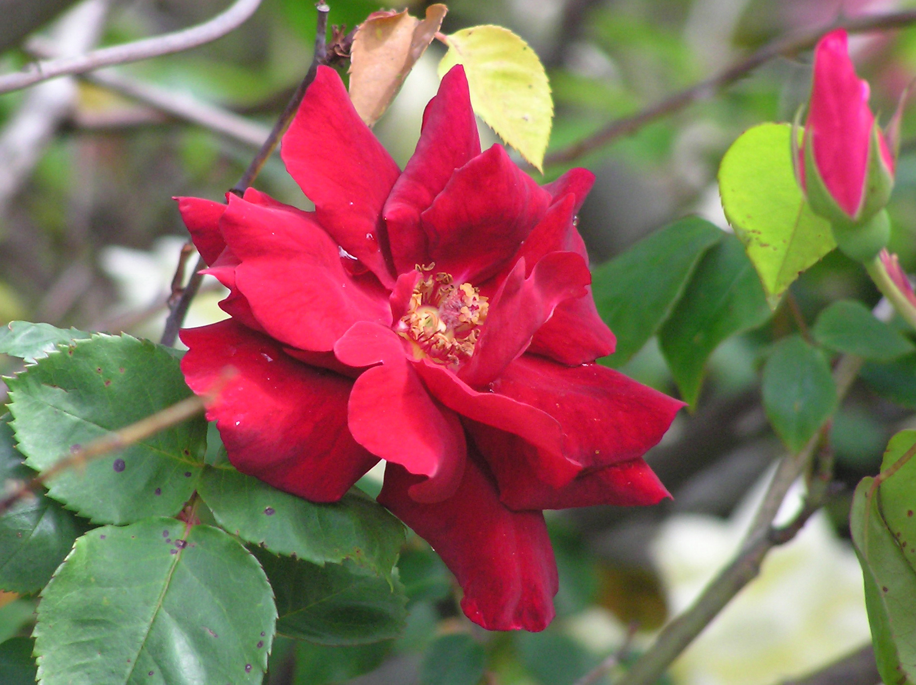 Alister Clark climbing rose Billy Boiler 1927